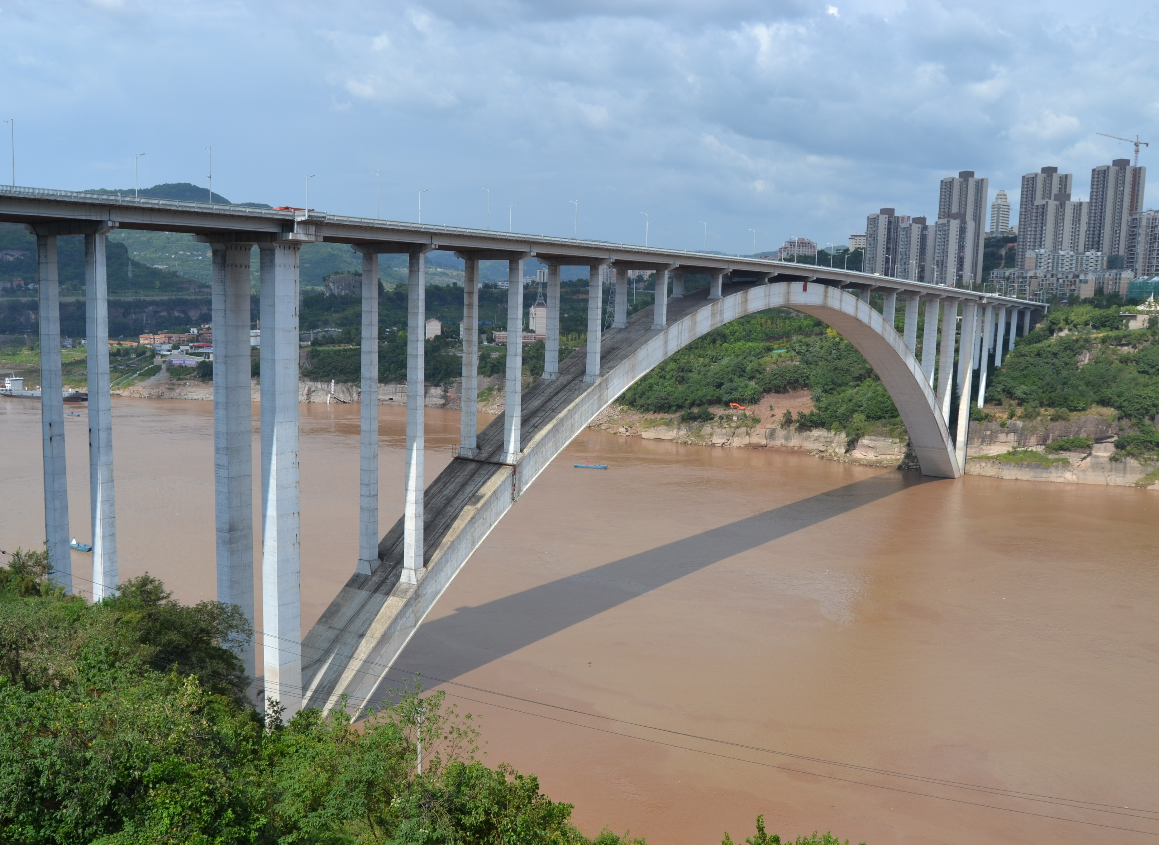 The Wanxian Bridge (foreground) and the Wanzhou Yangtze River Railway Bridge (background) over the Yangtze River in Wanzhou, Chongqing, China